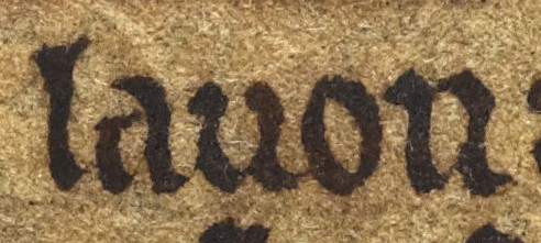 An excerpt from folio 42r of British Library MS Cotton Julius A VII (the Chronicle of Mann). The excerpt reads in Latin "Lauon".